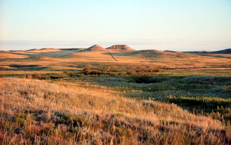 University and Carnegie Hill fossil sites in the prairie of Agate Fossil Beds National Monument, Nebraska USA